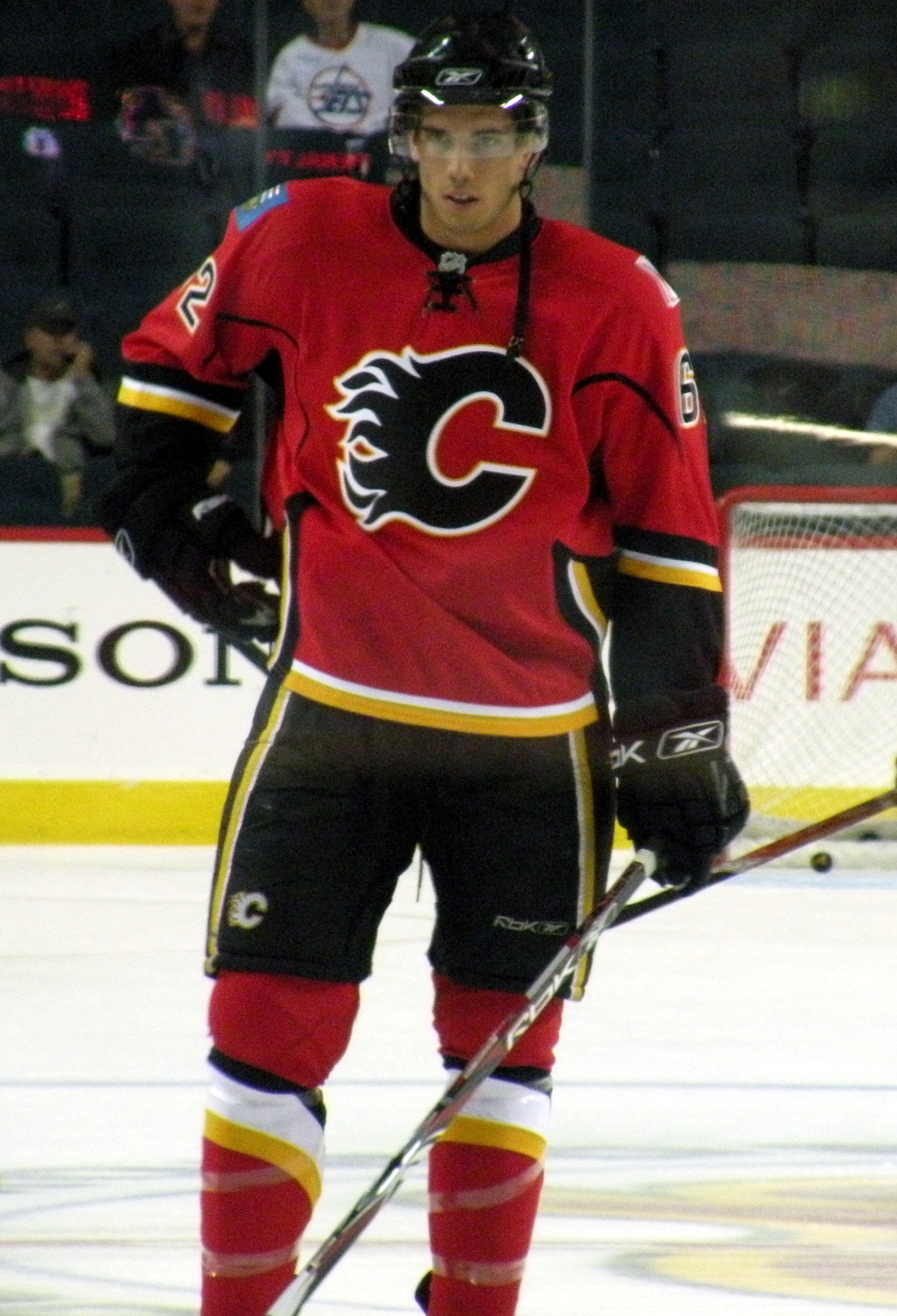 Calgary Flames prospect Kris Chucko during warm-up prior to a pre-season game against the Phoenix Coyotes.